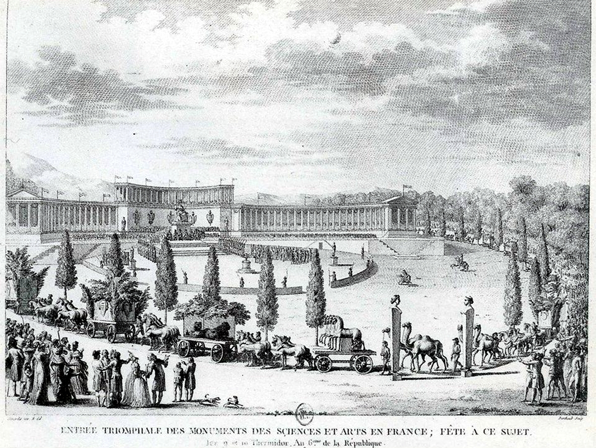 Entry into Paris of a convoy of stolen works of art by Napoleon I; at center are the four horses of St. Mark